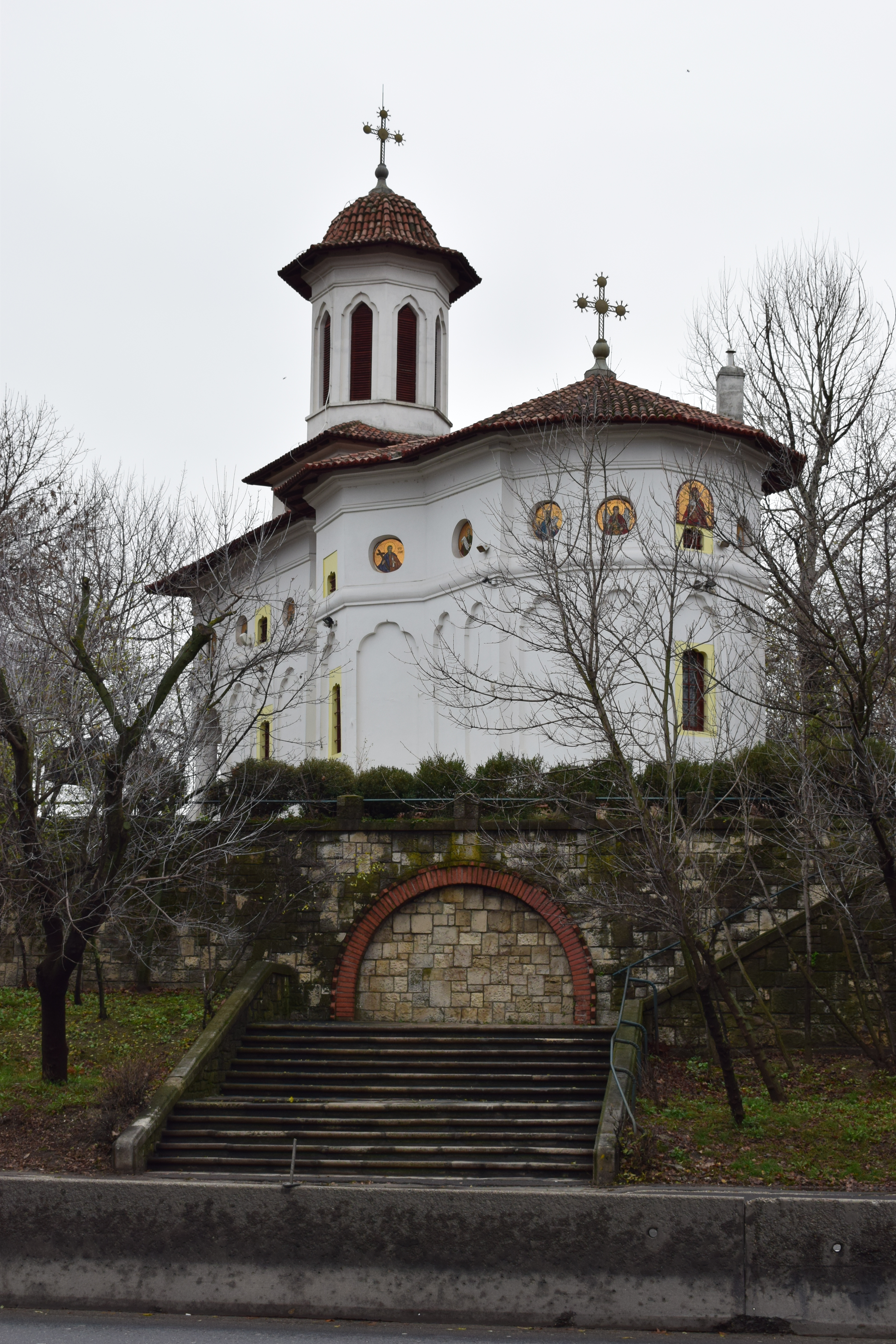 The "Saint Nicholas" Orthodox Church in Băneasa neighborhood, Bucharest, as seen from Bucharest-Ploiești National Road